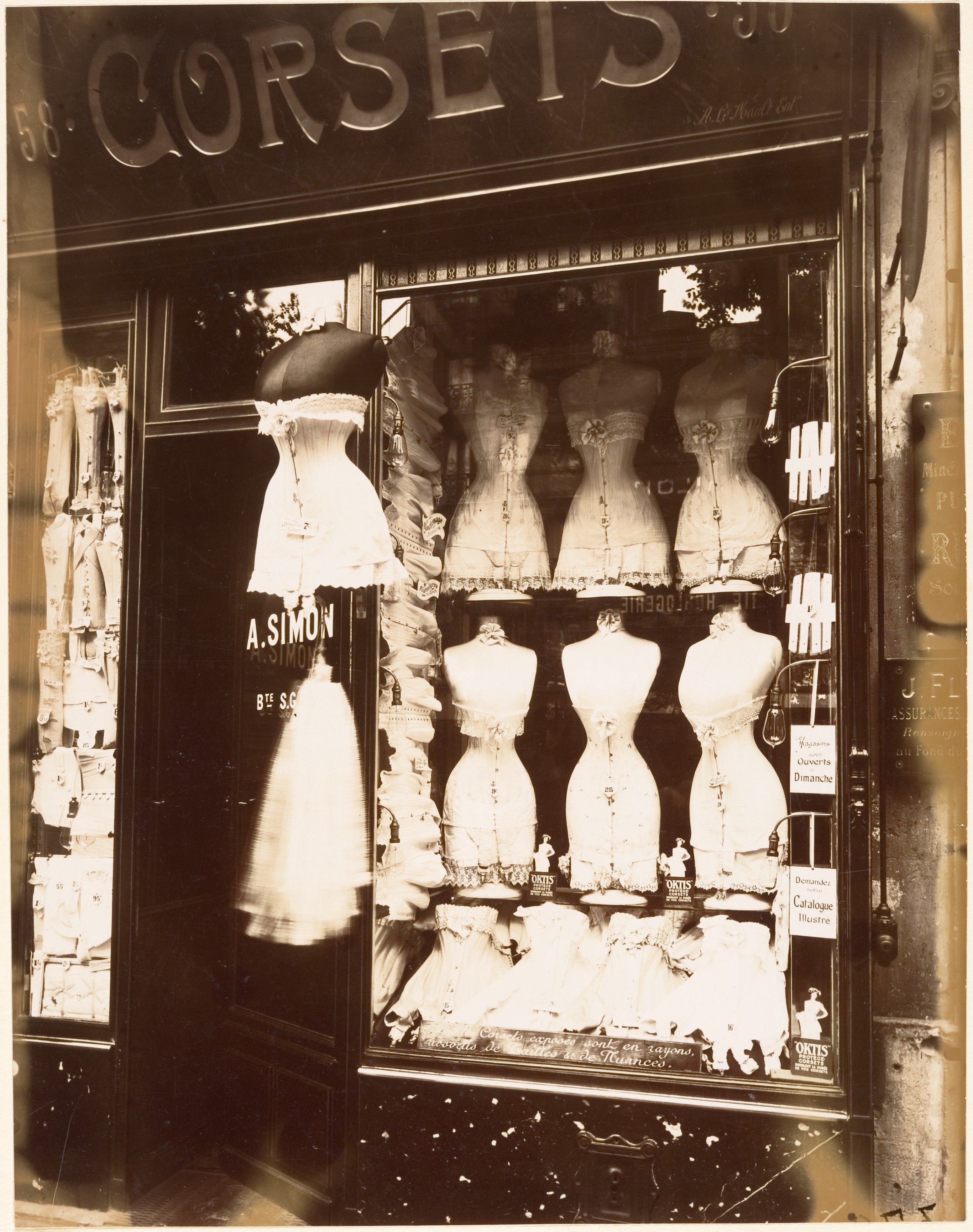 Boulevard de Strasbourg, Corsets, Paris